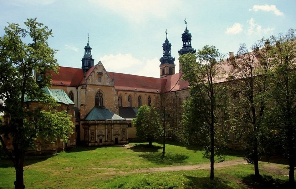 View of the former monastery of Lubiąż an the baroque Loreto-Chapel from northern direction.